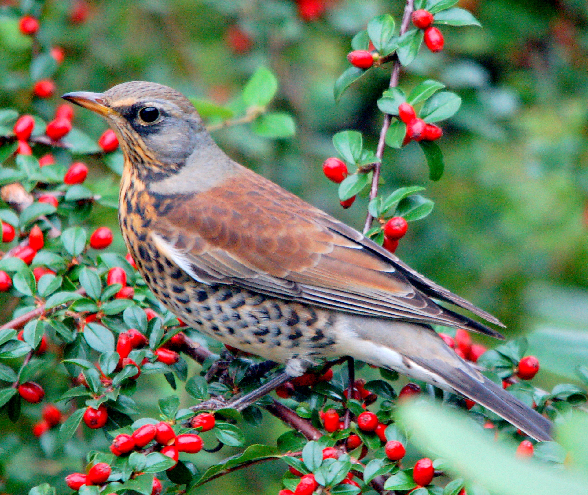 The Fieldfare (Turdus pilaris)